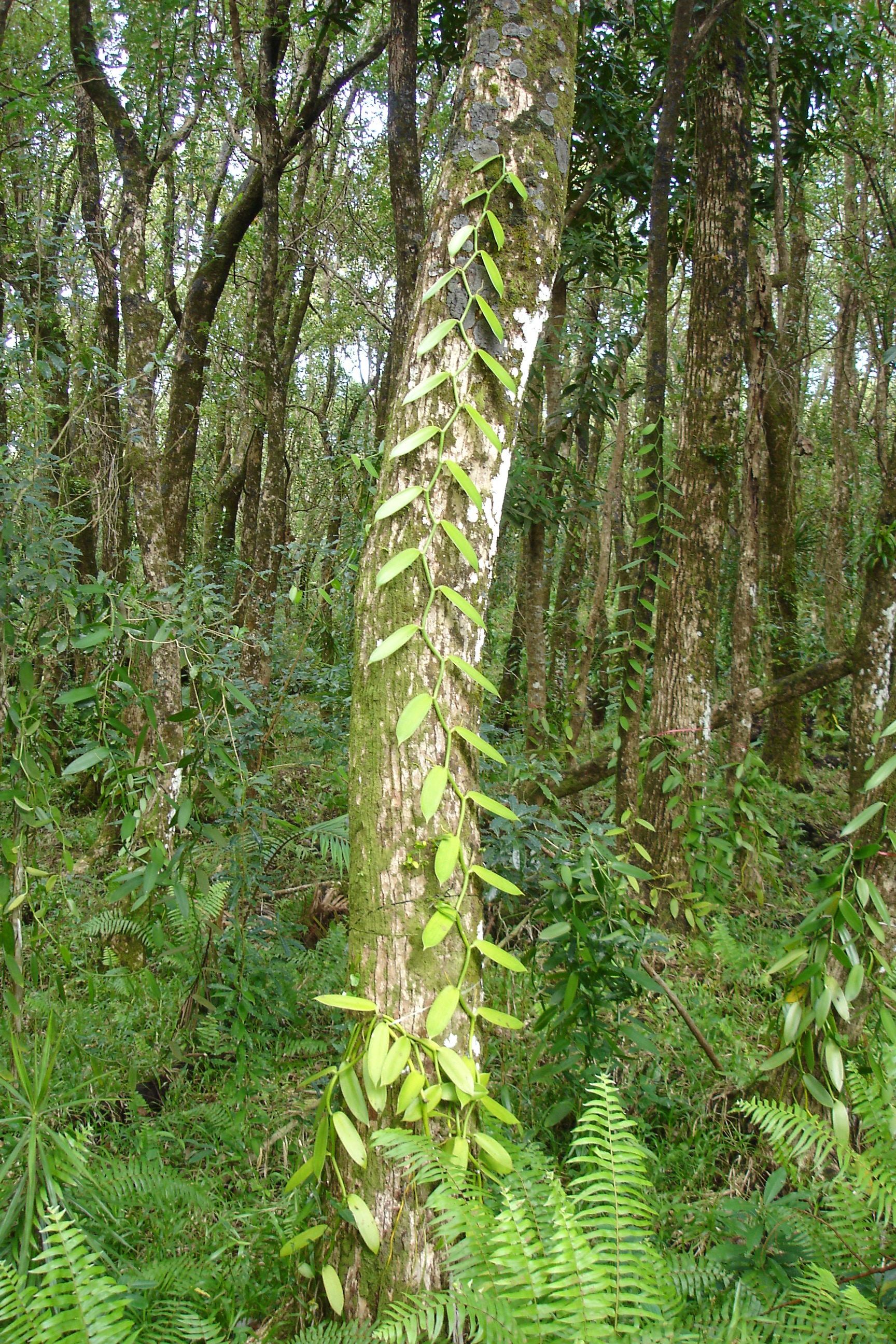 A vanilla planifolia vine growing up a tree in a vanilla plantation on Réunion Island.